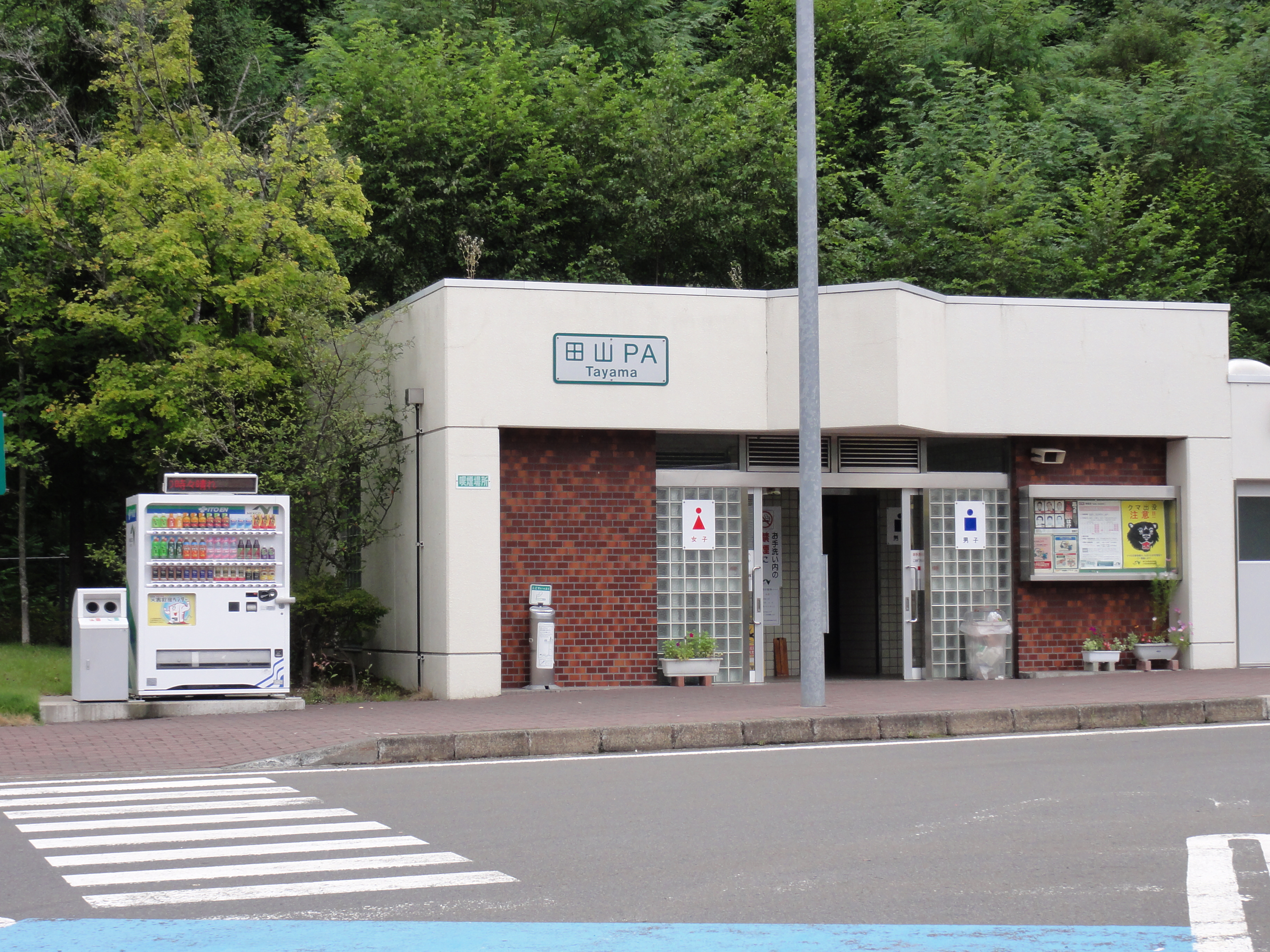 Tayama ParkingArea,Iwate Pref., Japan